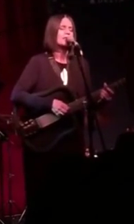 Joyce Moreno performing in 2016